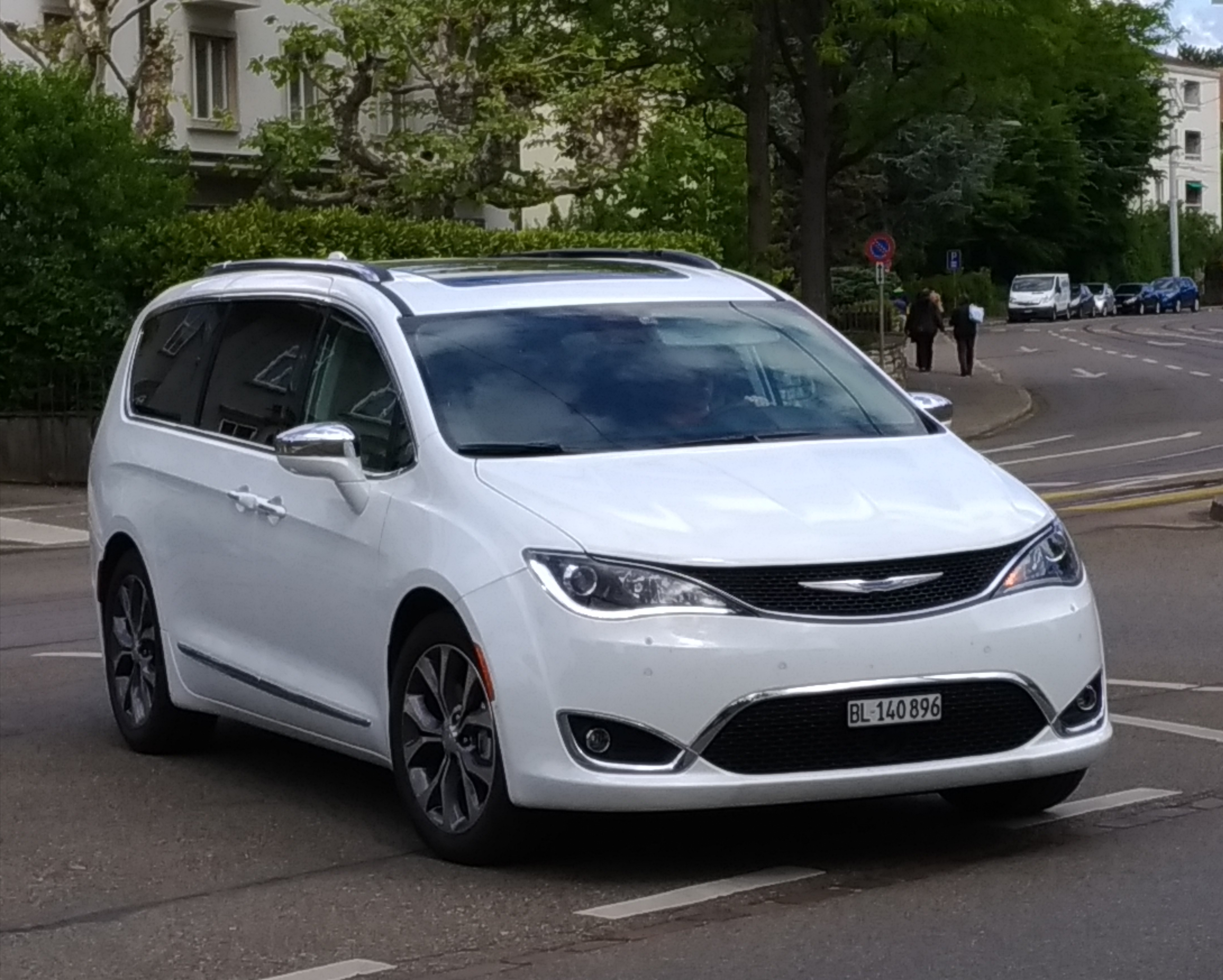 Chrysler Pacifica